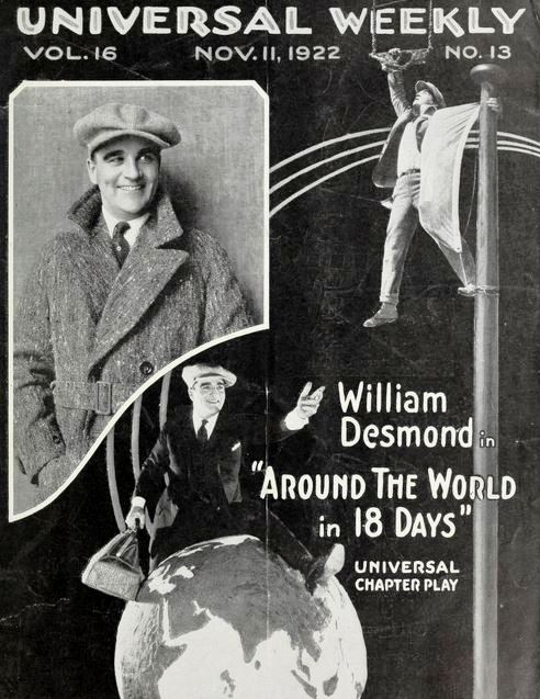 Stills for the American film serial Around the World in Eighteen Days (1923) with William Desmond, used on the cover of the November 11, 1922 Universal Weekly.